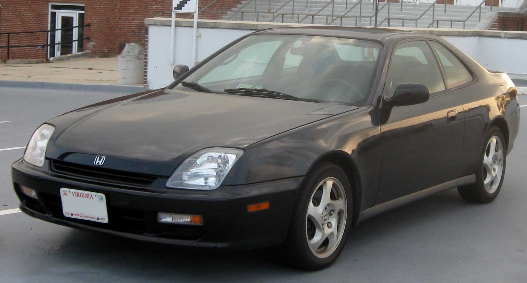 1997-2001 Honda Prelude photographed in College Park, Maryland, USA.